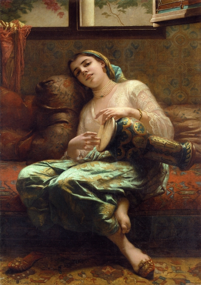 Charles-Landelle-Algerian-Woman-Playing-A-Darbouka